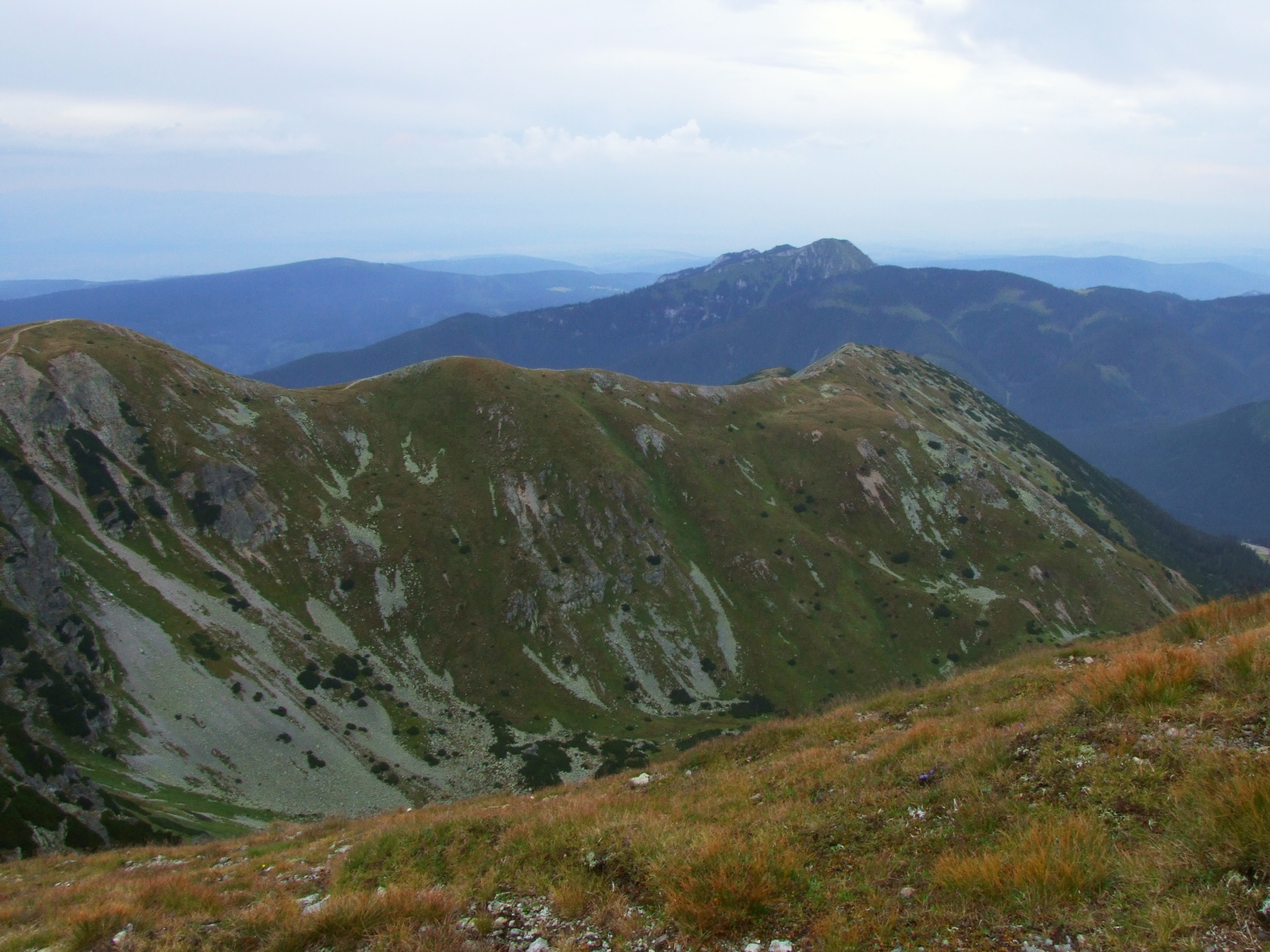 Brestowa (West Tatra Mountains)